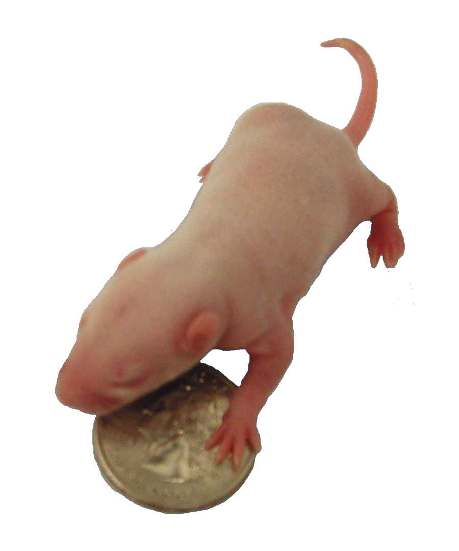 Though naked, helpless, and blind, this week-old rat (pictured with a quarter) already has the fundamental neural components of adult sleep.